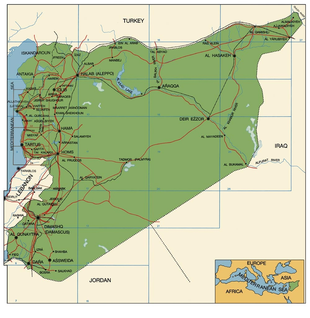 Map of Syria